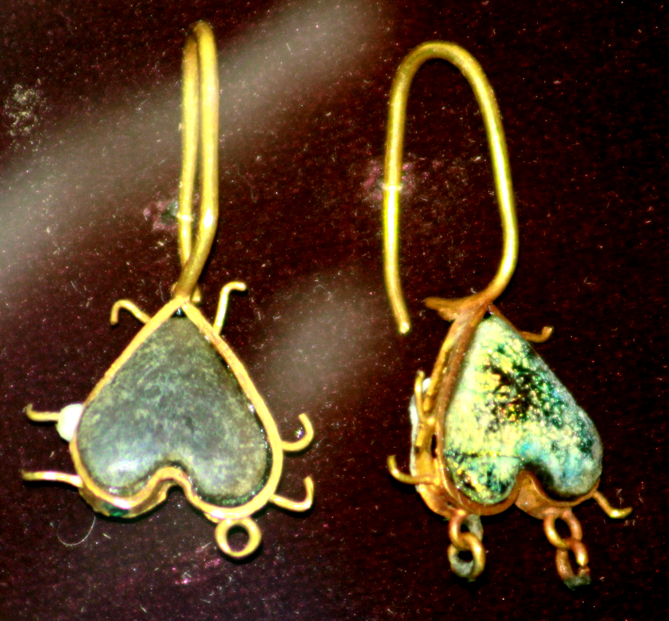 Ürək şəkilli qızıl sırğa, Mingəçevir, III – XII əsrlər, Qafqaz Albaniyası